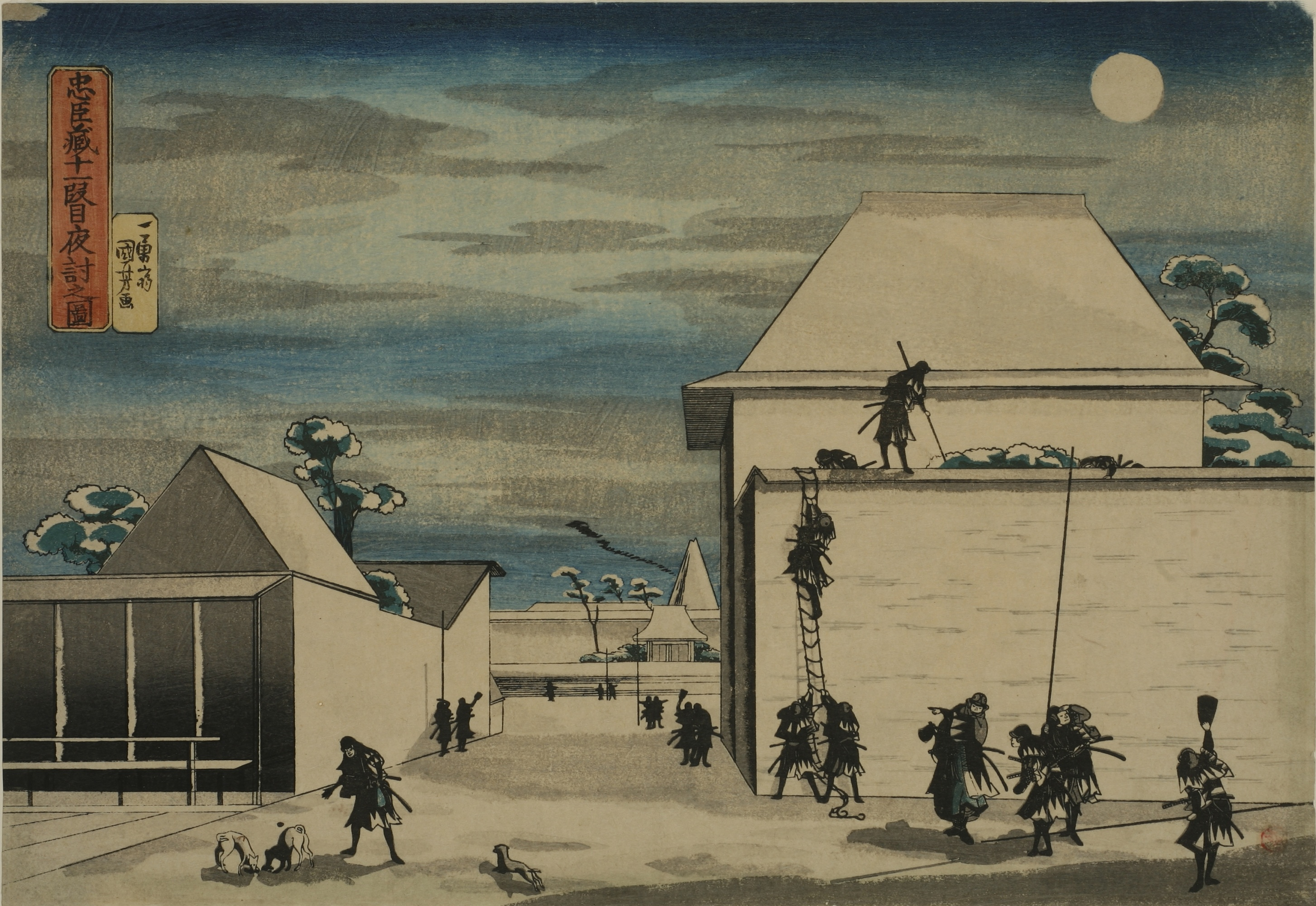 Woodblock print by Utagawa Kuniyoshi, Chūshingura jūchidanme yo’uchi no zu, c. 1835